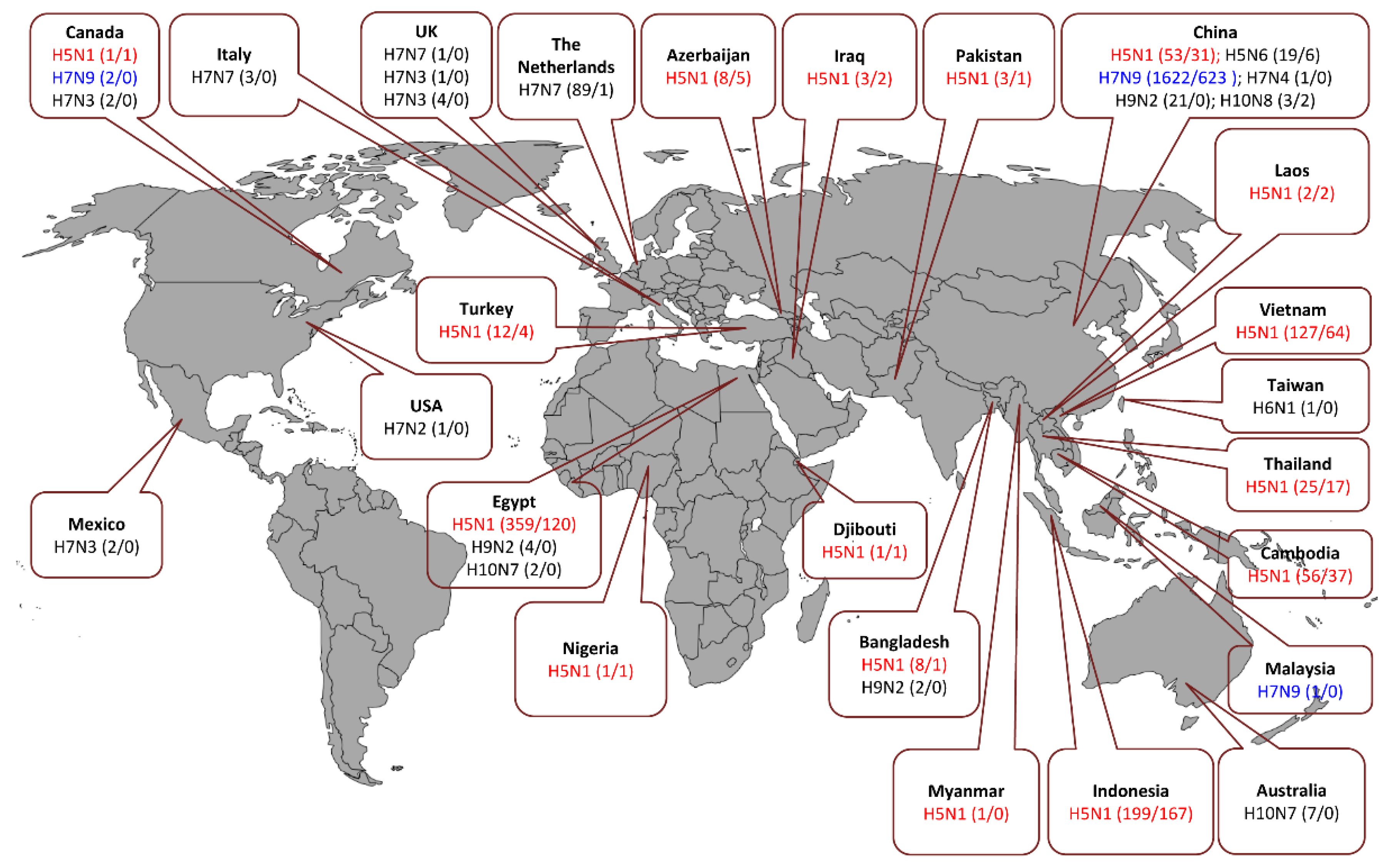 Documented human cases and fatalities caused by zoonotic AIVs. Zoonotic events by H5Nx, H6N1, H7Nx, H9N2, and H10Nx viruses were reported in the indicated countries. In brackets the number of confirmed cases against the number of fatalities until July 2018 countries are indicated [44,91,92,93]. Compared to other human isolates of AIVs (black), H5N1 (red), and H7N9 (blue) demonstrated increased zoonotic potential.